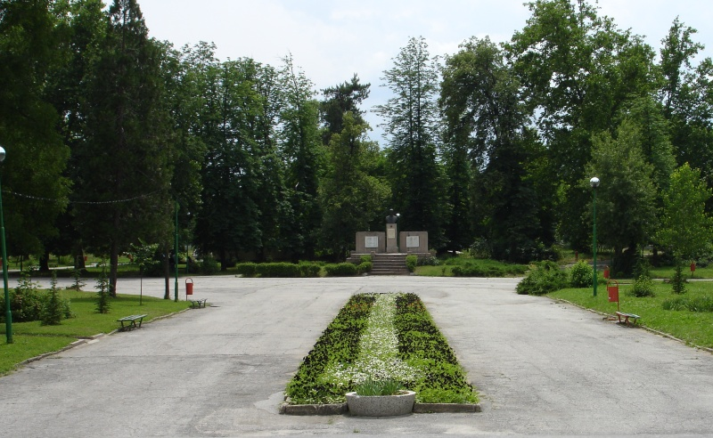 Park Island Freedom in Pazardzhik, Bulgaria